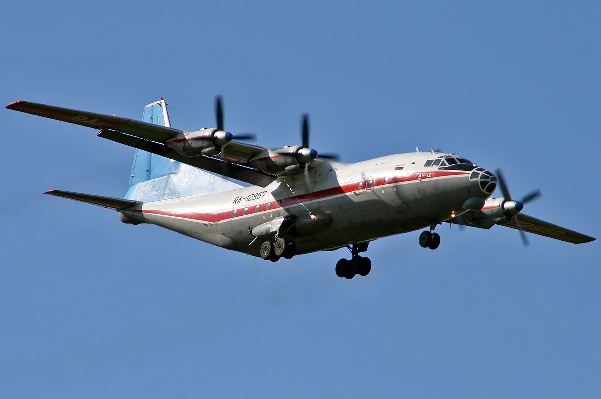 Moskovia Airlines Antonov An-12B. This aircraft crashed in en:2008 Chelyabinsk Antonov An-12 crash